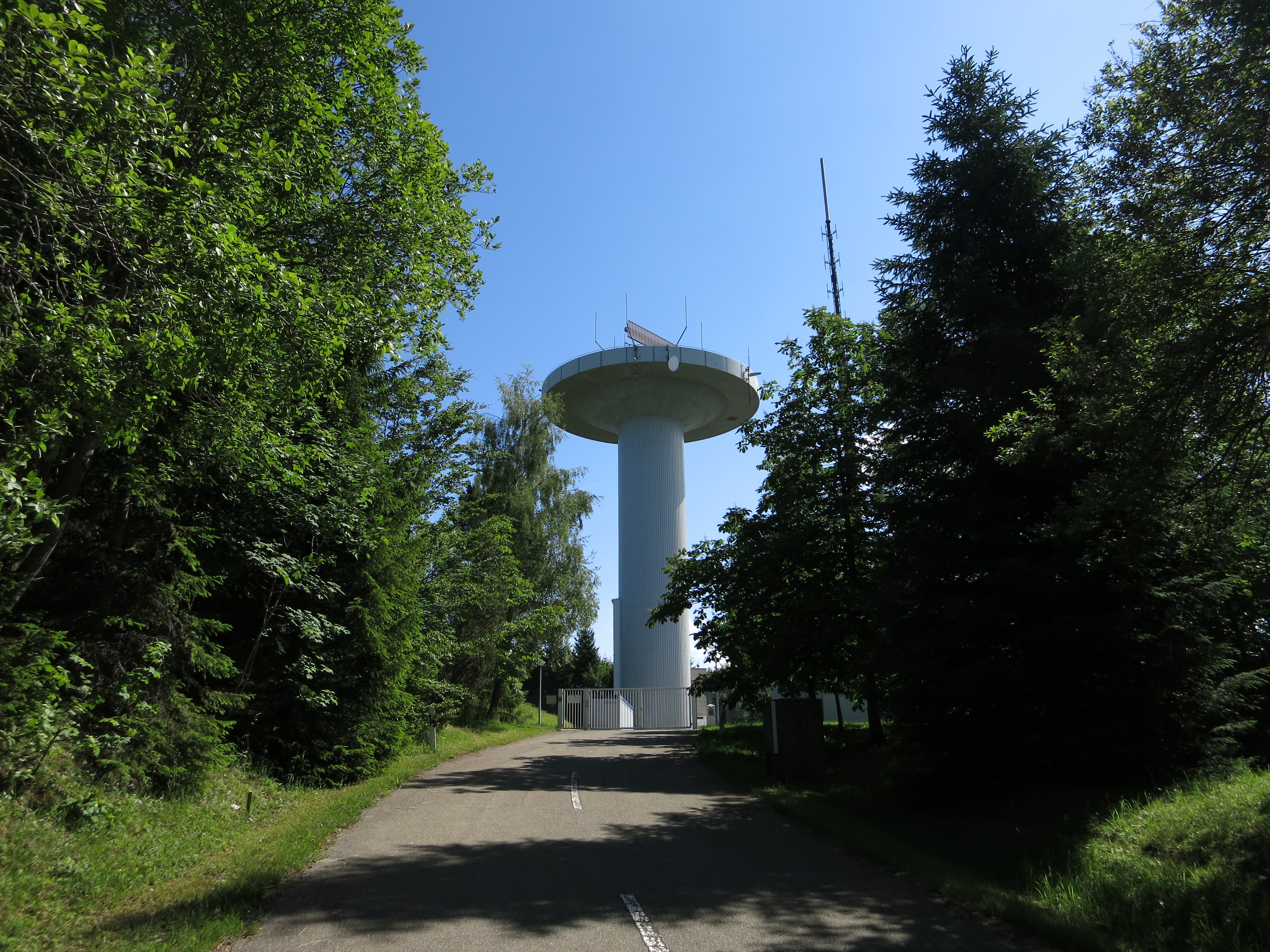 On top of Hochwald, Schwaebische Alb